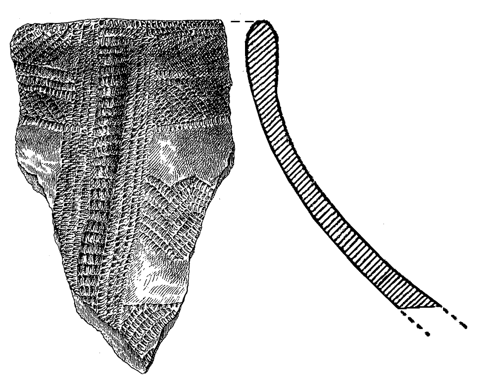 Cardium pottery of Neolithic - Fragment of pottery neck with cardium decoration fron the Cave named Cueva Grande de Collbató (Catalonia)